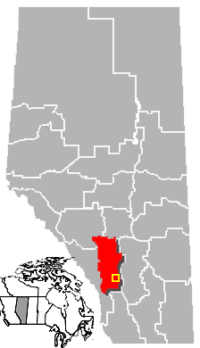 Location of High River, Census Division No. 6, Albera